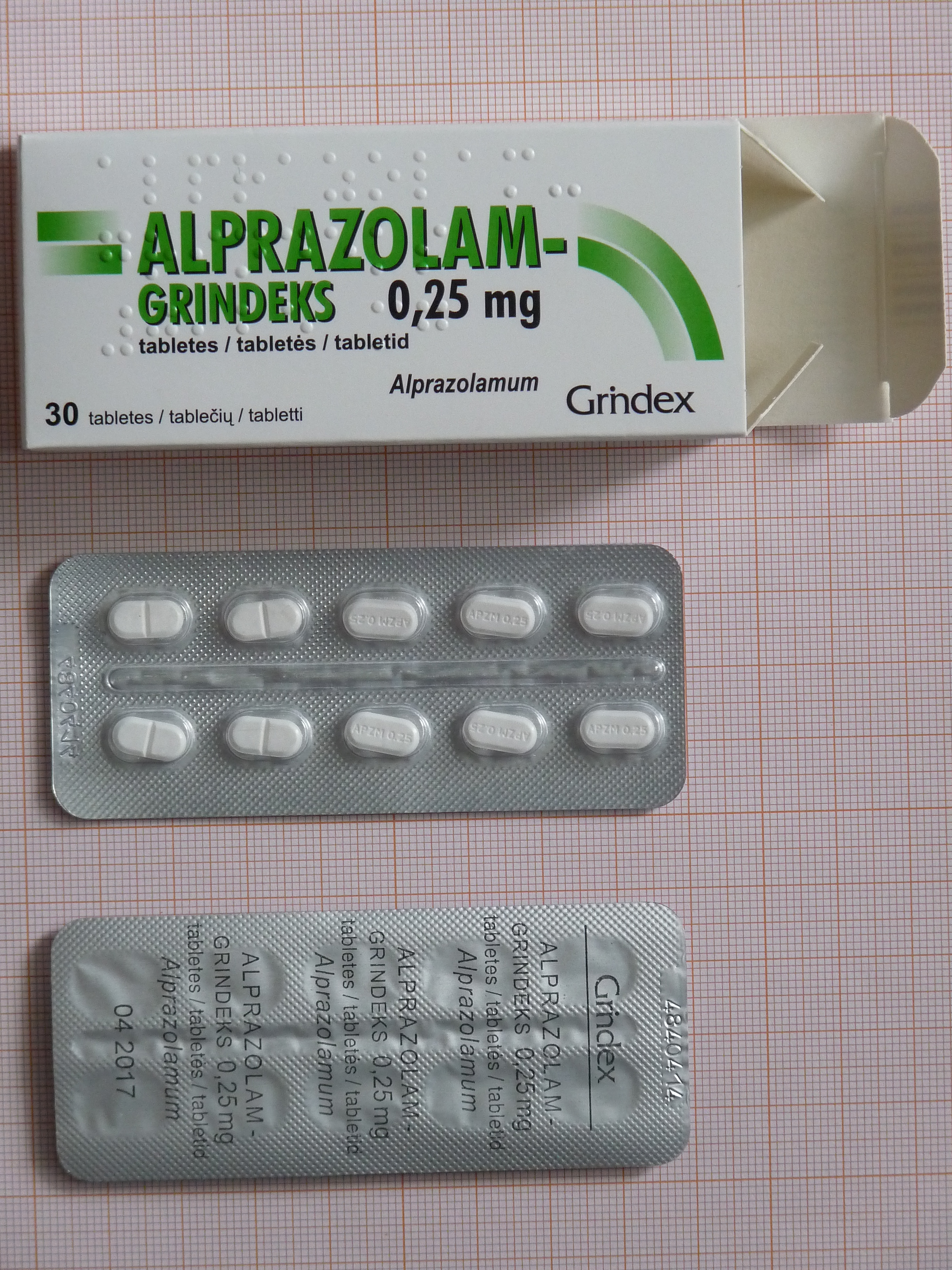 Very strong-action sedative, 0.25mg. Causes addiction very fast cause deep and strong effect lasts only short period of time. Addiction is much more harder than from heroine. Even usage of small doses will cause tolerance on 4th day. Widely sold in black market with 2000% margin comparing with legal pharmacies. Way out of the situation: use only when it's really necessary. Never ever in your life use Alprazolam every day even in small doses to avoid all negative effects.